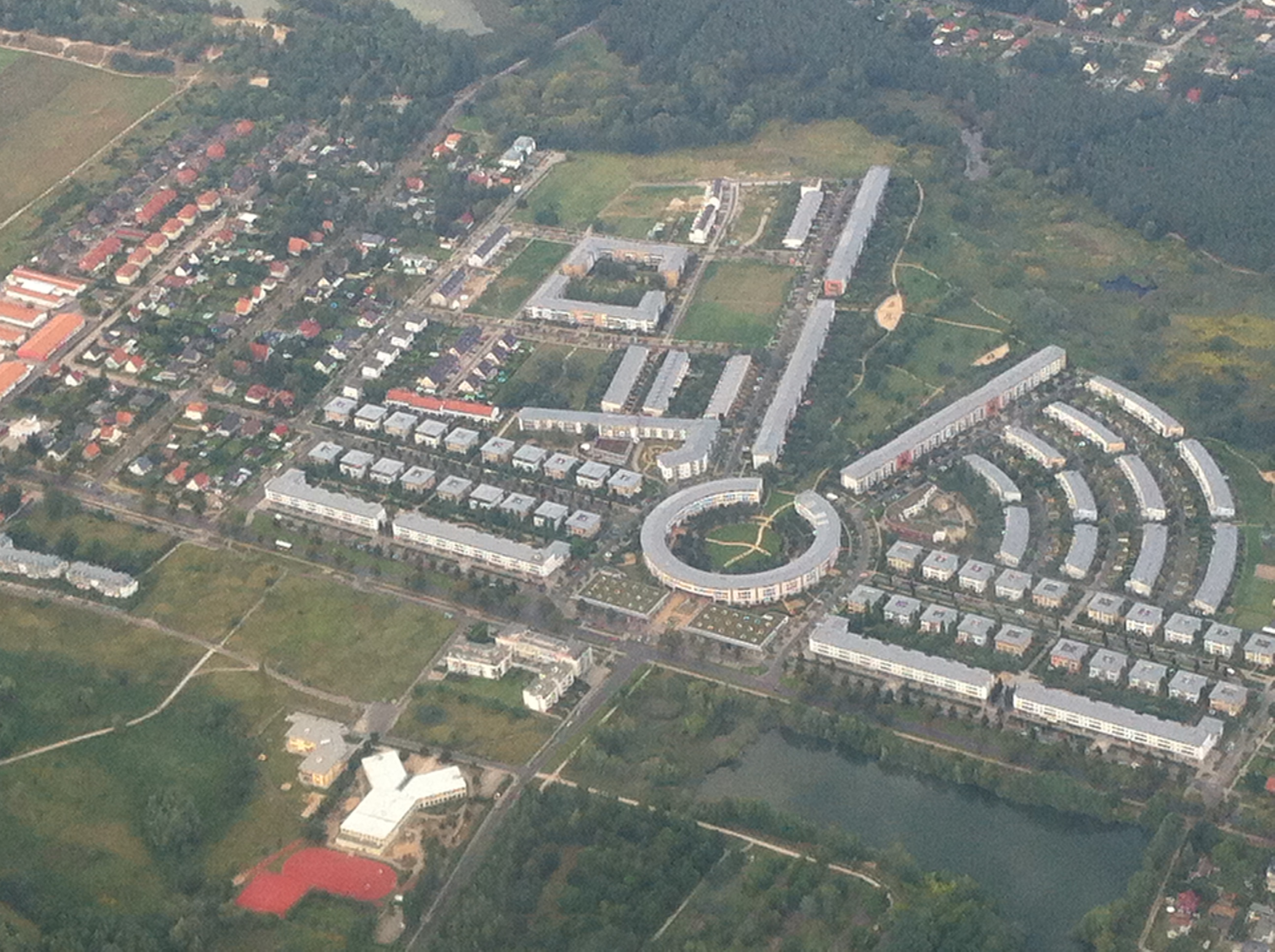 The so called Gartenstadt Falkenhöh in Falkensee, Germany